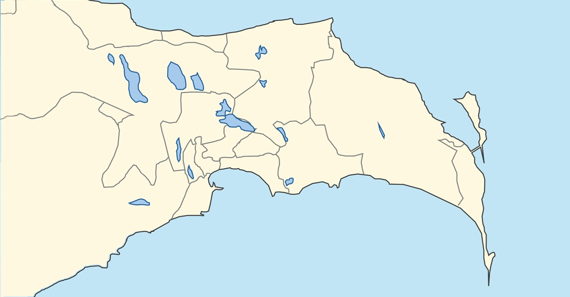 Map of the districts of Baku.